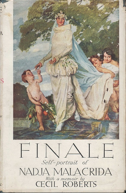 Cover of the 1934 book, 'Finale - Self-portrait of Nadja Malacrida', featuring artwork by Ettore Tito